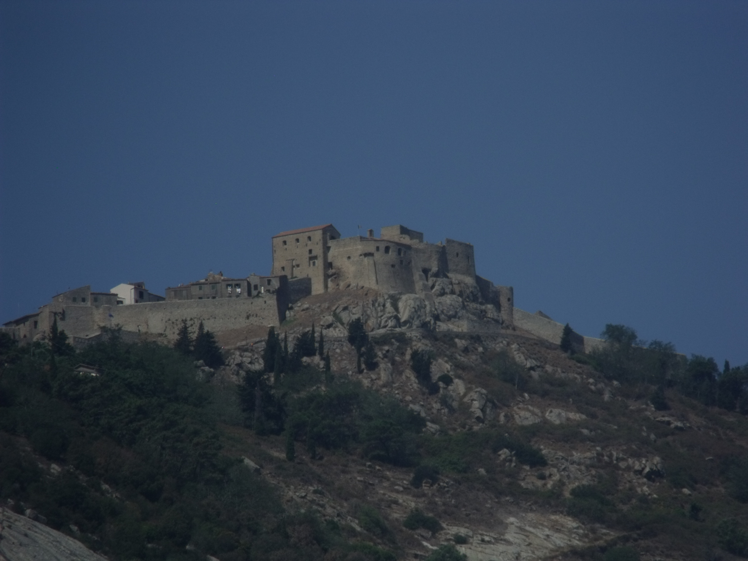 Panorama of Giglio Castello, Isola del Giglio, Province of Grosseto, Tuscany, Italy